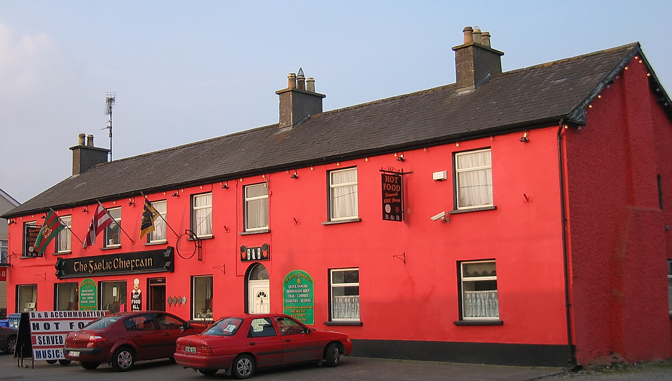 'The Gaelic Chieftain' on the N4 in Rathowen